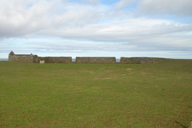 The Battery, Castletown This is a Victorian battery constructed sometime after 1866 as a training facility for the local artillery volunteers. It is possible that it was armed with the two cannon which now stand at Thurso Castle.